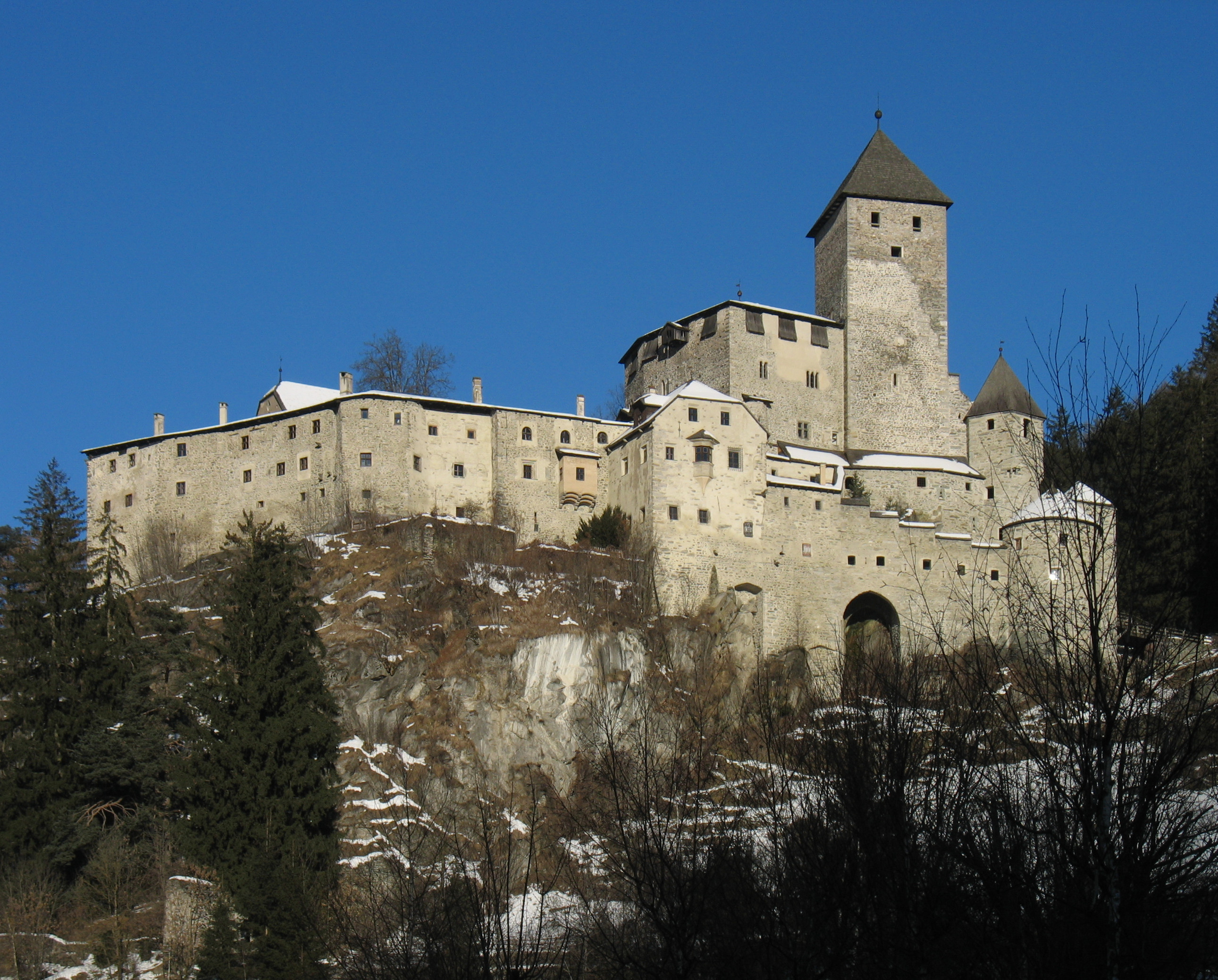 The Taufers Castle, in Sand in Taufers, Trentino-Alto Adige/Südtirol, Italy. Perspective corrected with Hugin, two small twigs cloned away.